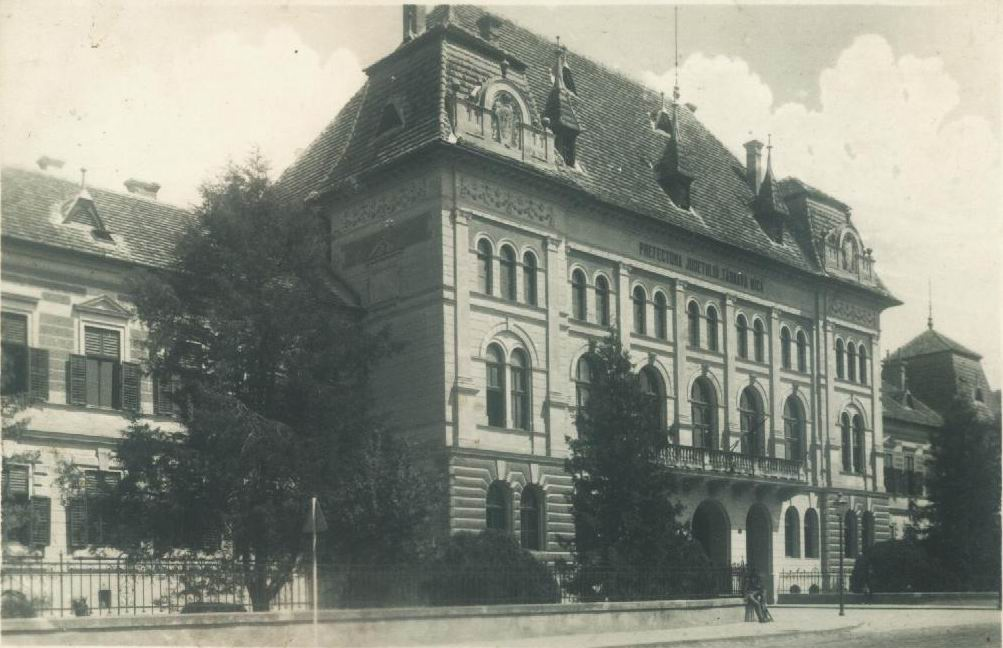 Technical High School in Târnăveni, the former Târnava Mică County Hall during the interbelic period.